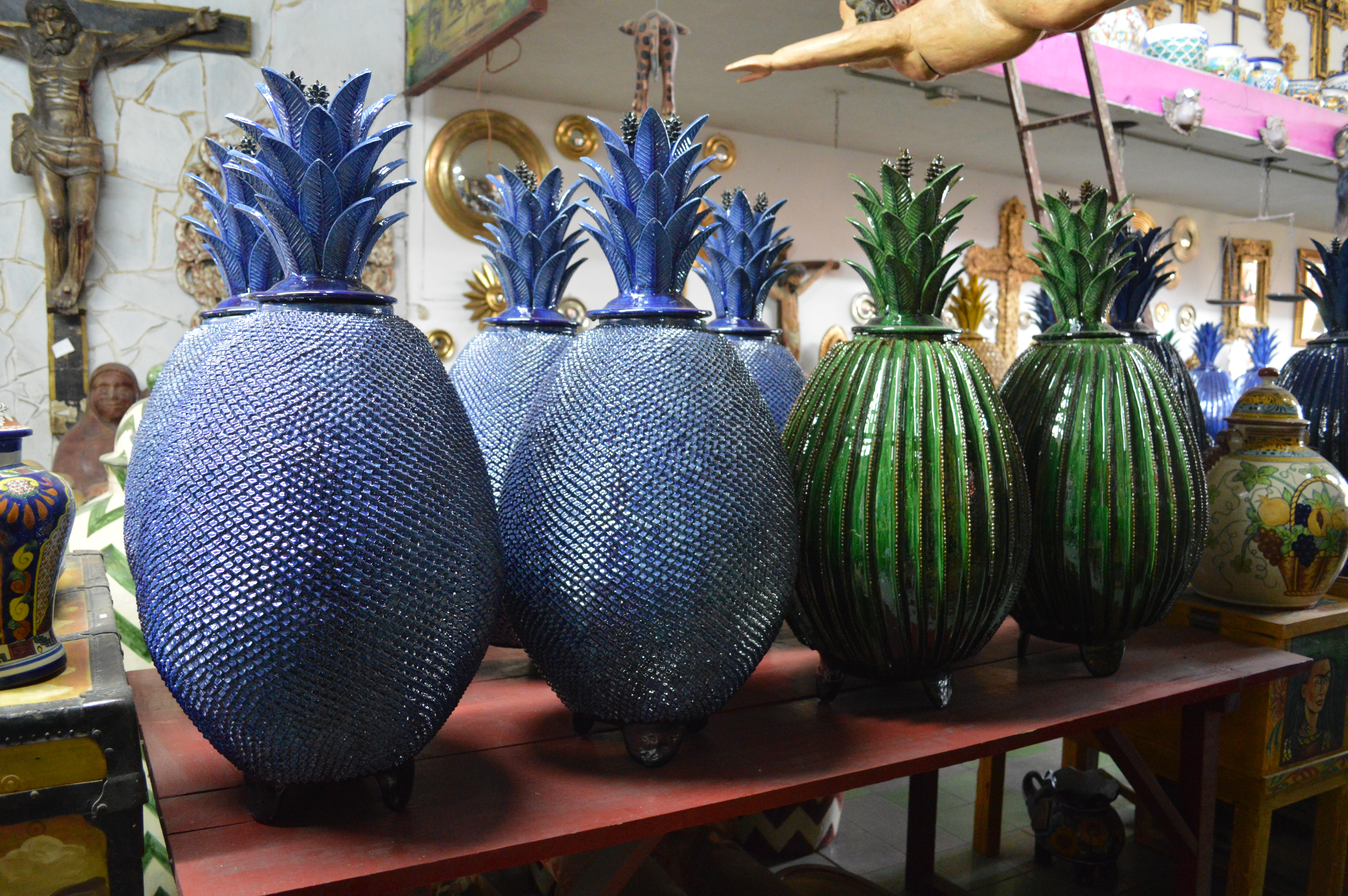 "Pineapple" containers by Hilario Alejos Madrigal at a shop in Tlaquepaque, Jalisco